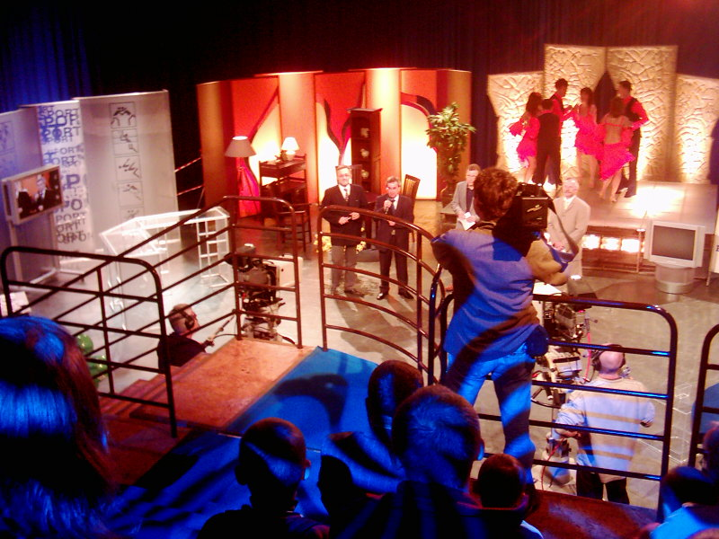 TVP 3